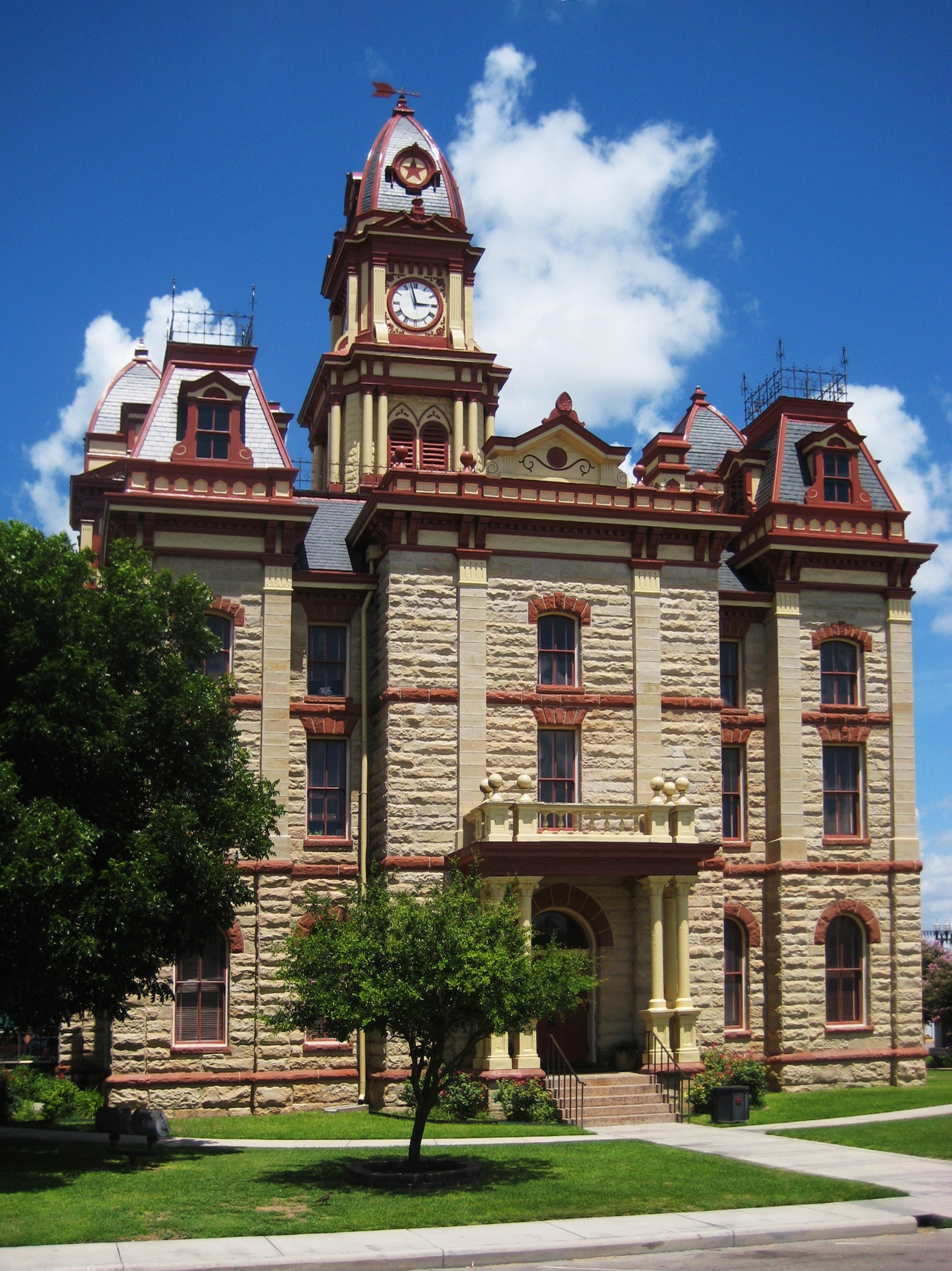 Caldwell County Courthouse at Lockhart